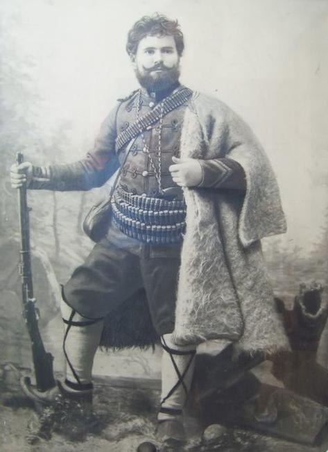 Portrait of SMAC member Steryo Steryovski from Konomladi